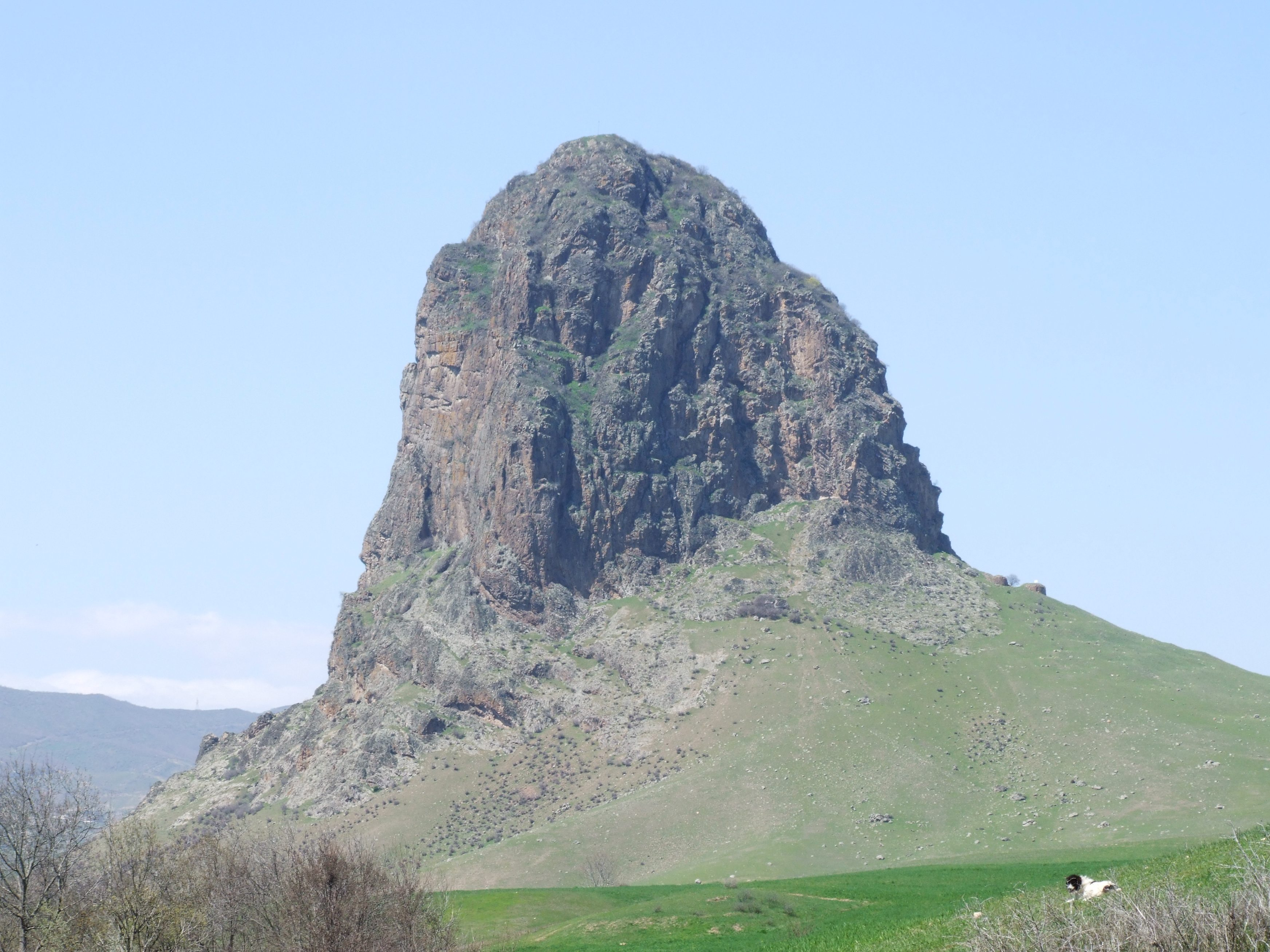 Allow for sharing.